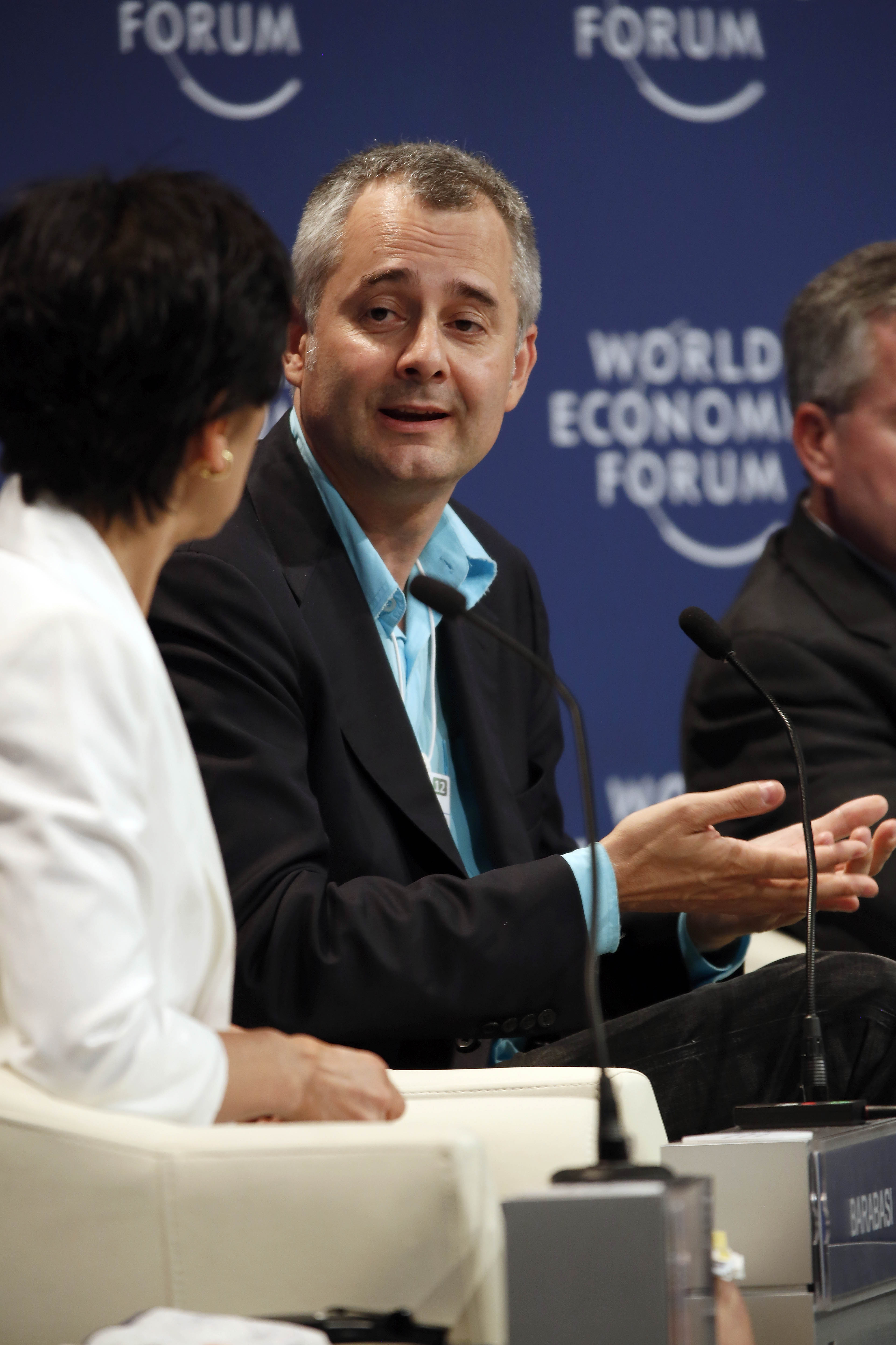 Albert-Laszlo Barabasi, Director, Center for Complex Network Research (CCNR), USA; Global Agenda Council on Complex Systems at the Annual Meeting of the New Champions in Tianjin, China 2012